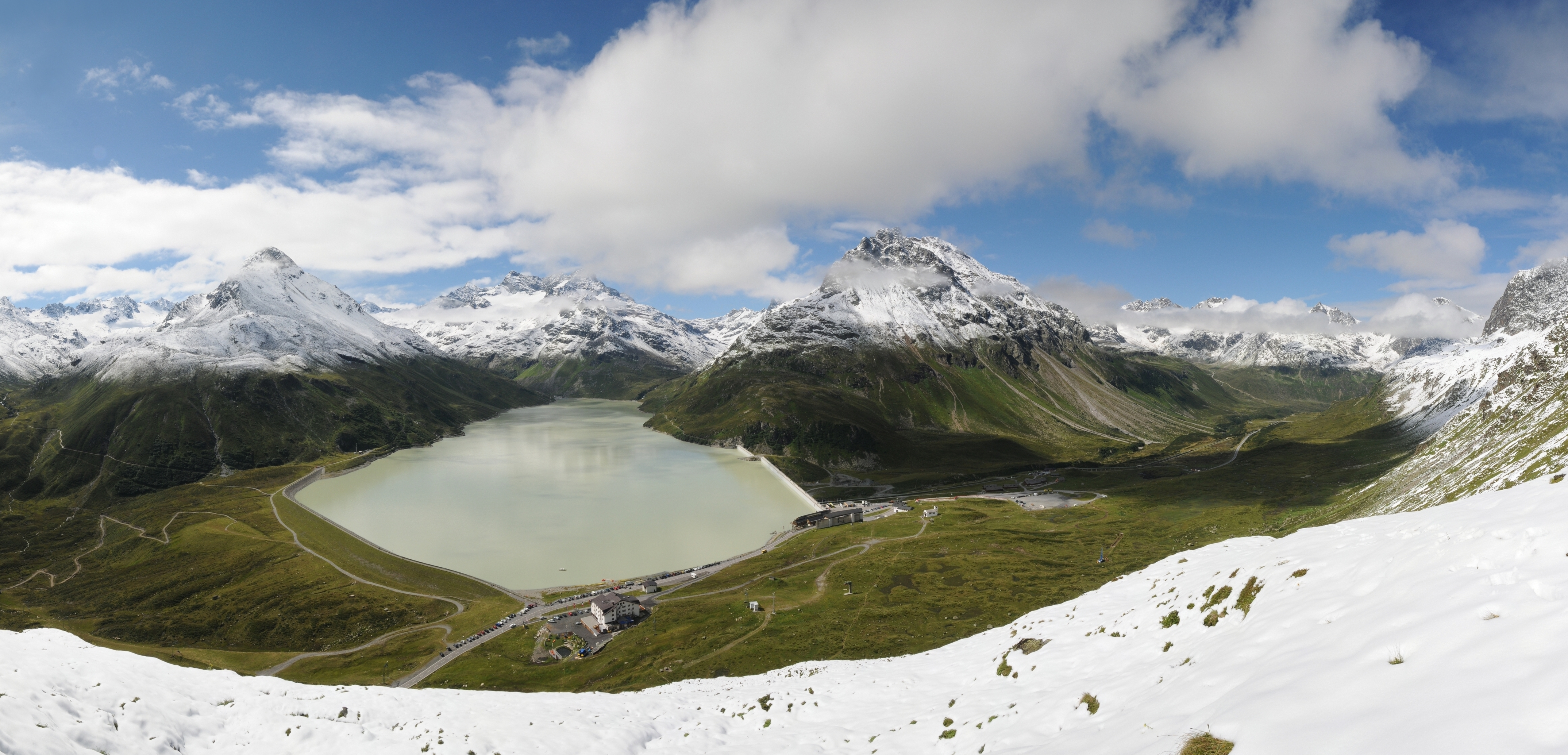 Panorama from multiple images. Under the Bieler Kopf (2,389m) lies the Silvretta reservoir at 2,037m in the Bielerhöhe Pass. The freshly fallen snow draws the contour of the surrounding mountains at 2,100m. Right beside the Hohes Rad (2,934m) can be seen the Piz Buin (3,255m).